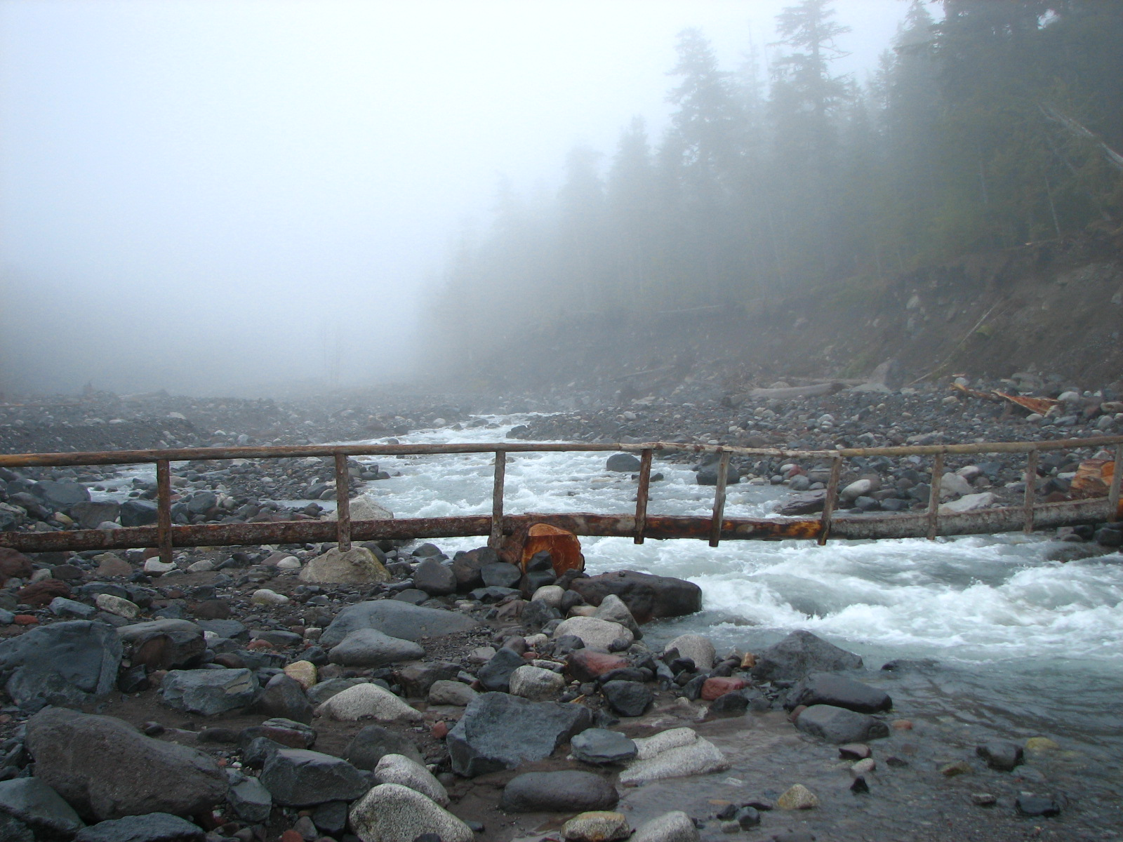 Log bridge crossing the Nisqually River along the Wonderland Trail in Mount Rainier National Park, Washington, United States.